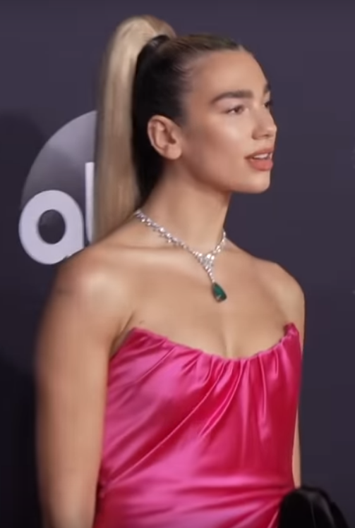 Dua Lipa at The 2019 American Music Awards red carpet